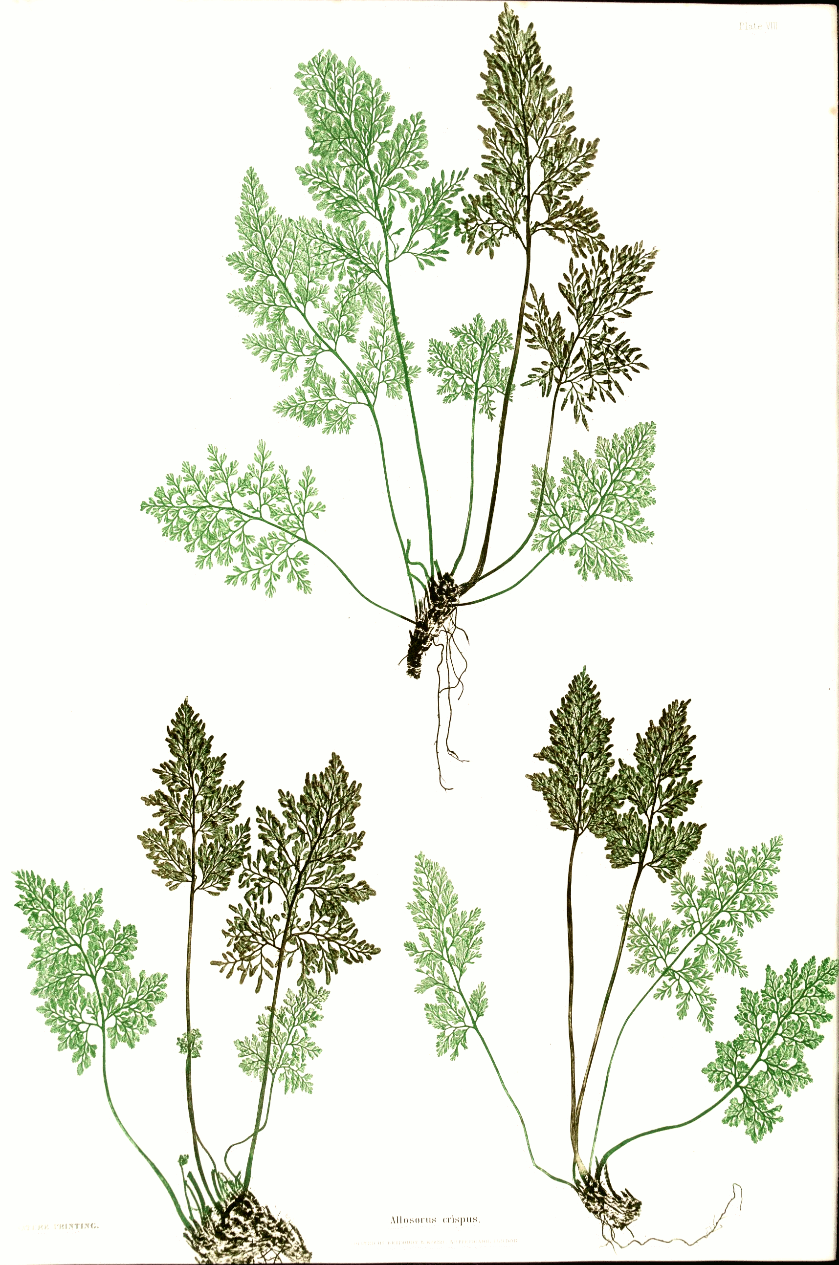 Plate from book